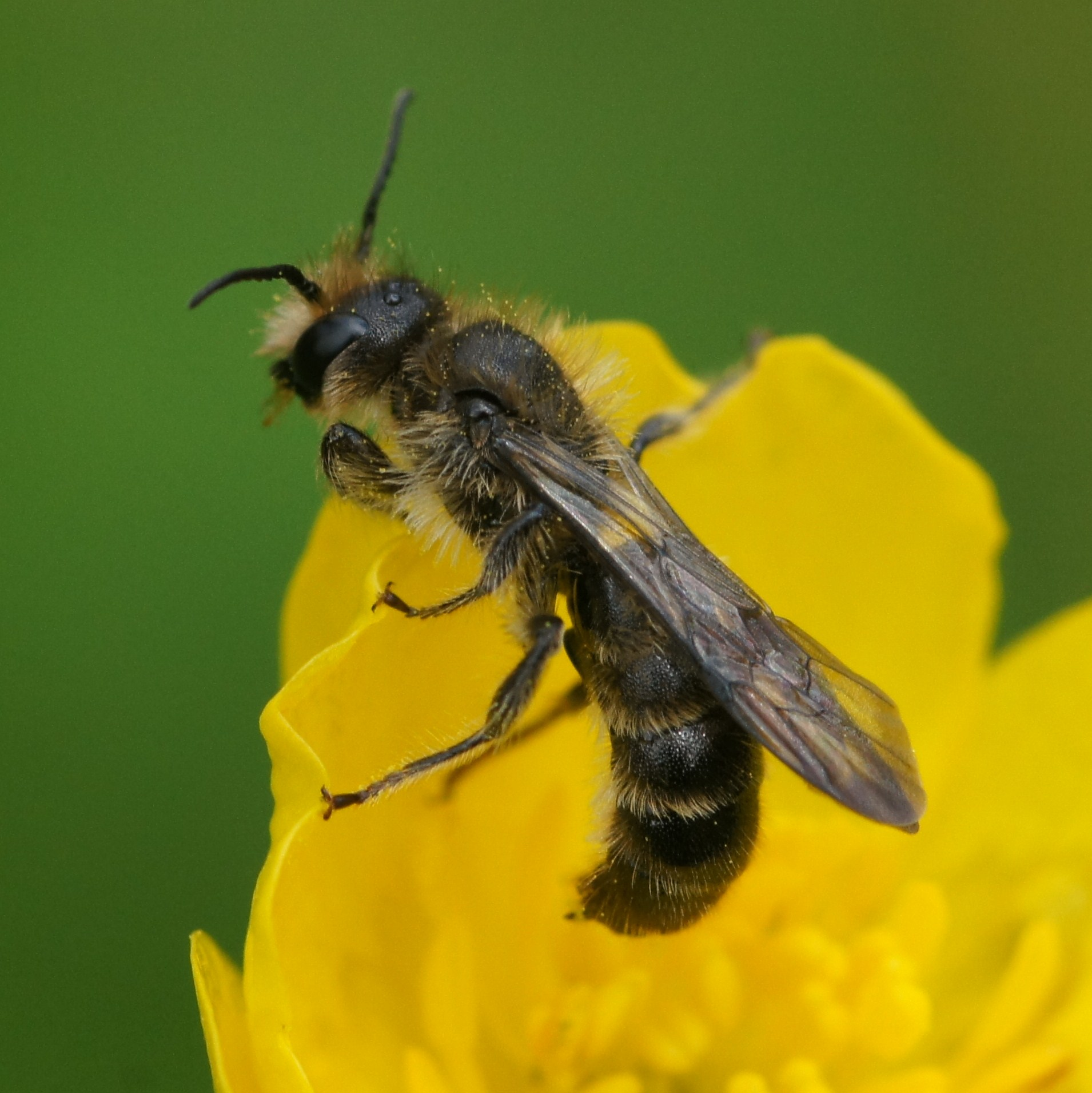 Chelostoma florisomne (male). Picture taken in Skåne, Sweden.